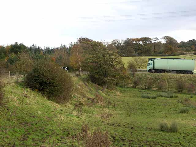 Main roads converge At this point the A69 Carlisle to Newcastle and the Military Road, B6318, converge. The Military Road turns left to run parallel for a short way before crossing the dual carriageway by a bridge. Hadrian's Wall National Trail pursues a somewhat indeterminate course into the corner of the field before climbing the bank to the left onto the Military Road